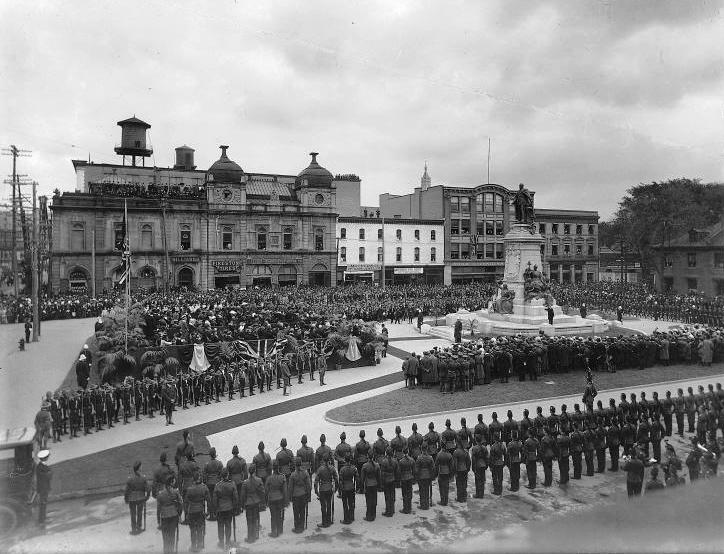 Photograph, King Edward Monument, Phillips Square, Montreal, QC, 1914 Wm. Notman & Son, Silver salts on glass - Gelatin dry plate process - 20 x 25 cm